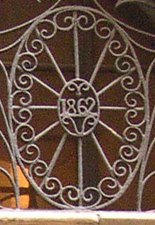 Saint Cristòfol Chapel, Regomir street, Barcelona, Catalonia.